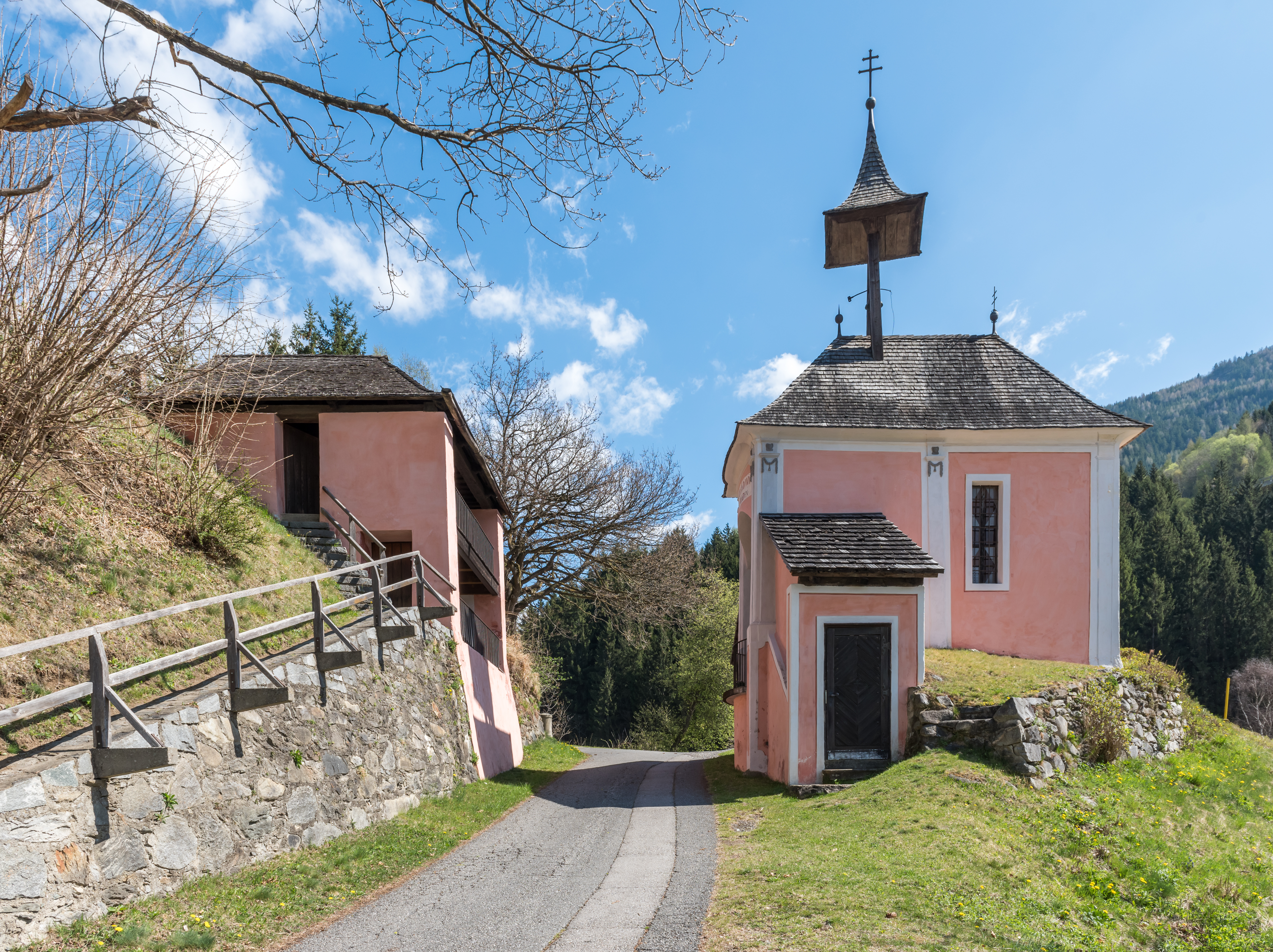 Cleft Kreuzbichl chapel, municipality Gmünd, district Spittal an der Drau, Carinthia, Austria, European Union